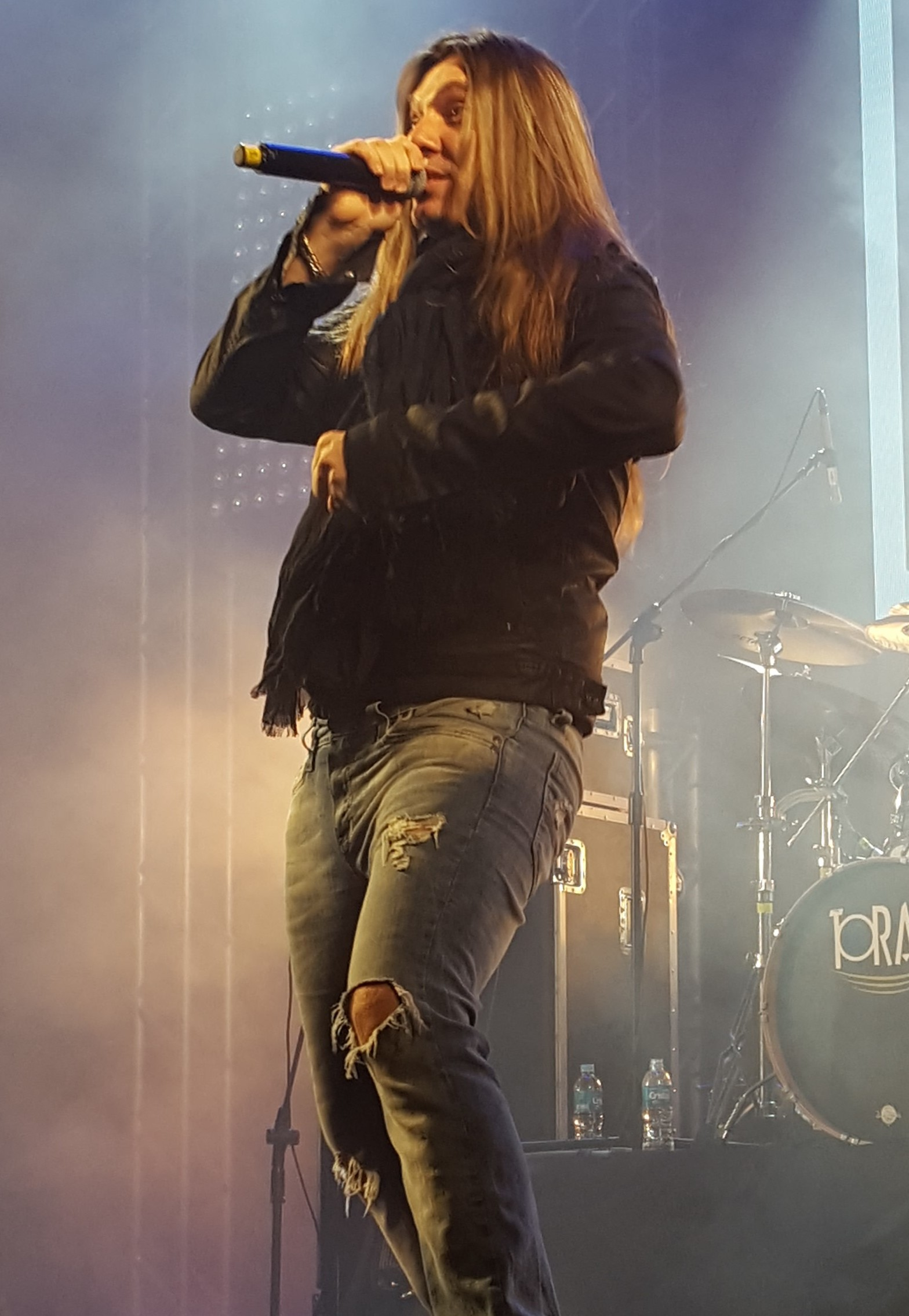 Edu Falaschi performing at Anime Friends 2016